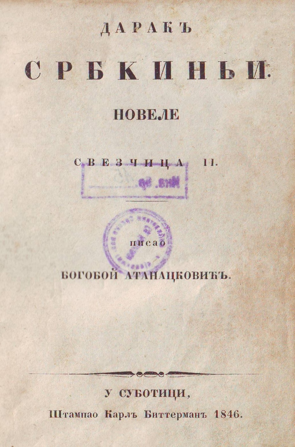 Cover of volume two of Darak Srbkinji (1846) by Bogoboj Atanacković. Srpski (latinica): Naslovna strana druge sveske Darka Srbkinji (1846) Bogoboja Atanackovića.